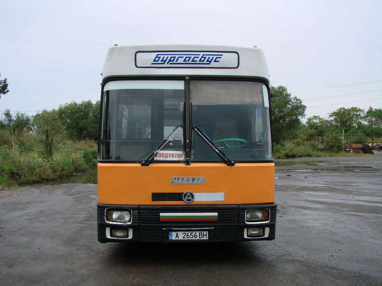 Chavdar 120 bus (reg. A 2656 BH) in Burgas, Bulgaria. Built 1996, Burgasbus (Бургасбуc ЕООД) operator.